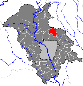 This map shows the area of the Gemeinde (municipality) Sankt Radegund bei Graz in the Bezirk (district) Graz-Umgebung, Styria, Austria.